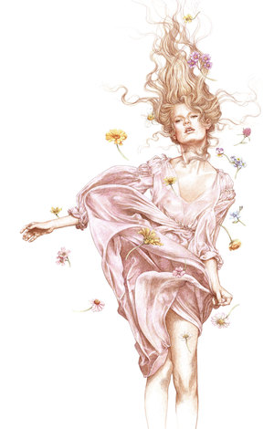 Anne Yvonne Gilbert's work, entitled "Fashion Drawing".